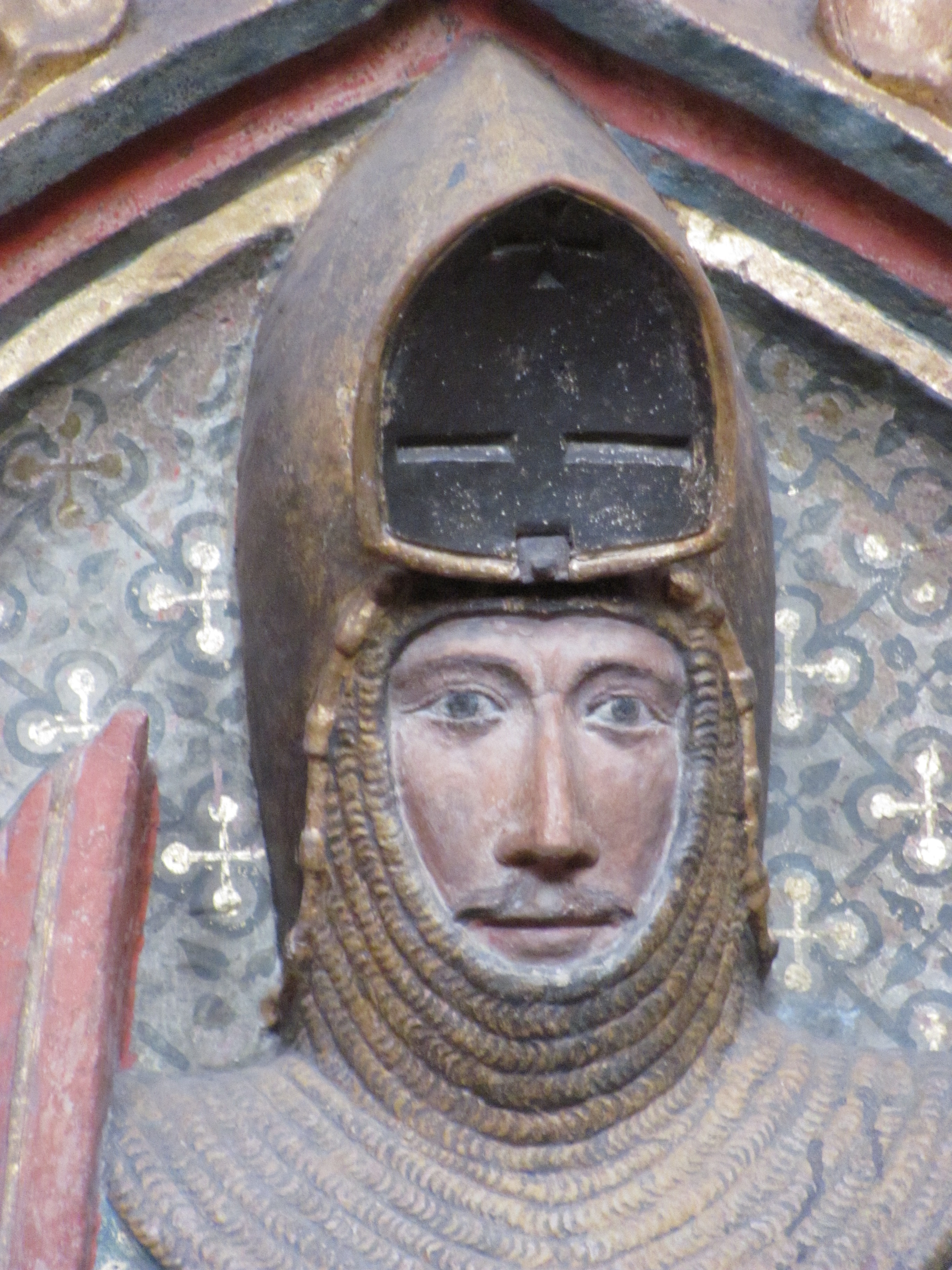 Nobelman Rudolf of Sachsenhausen